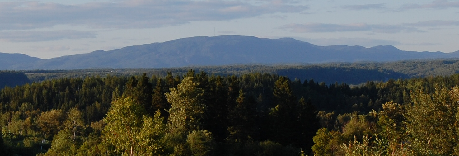 Monts-Valin, seen from Chicoutimi.